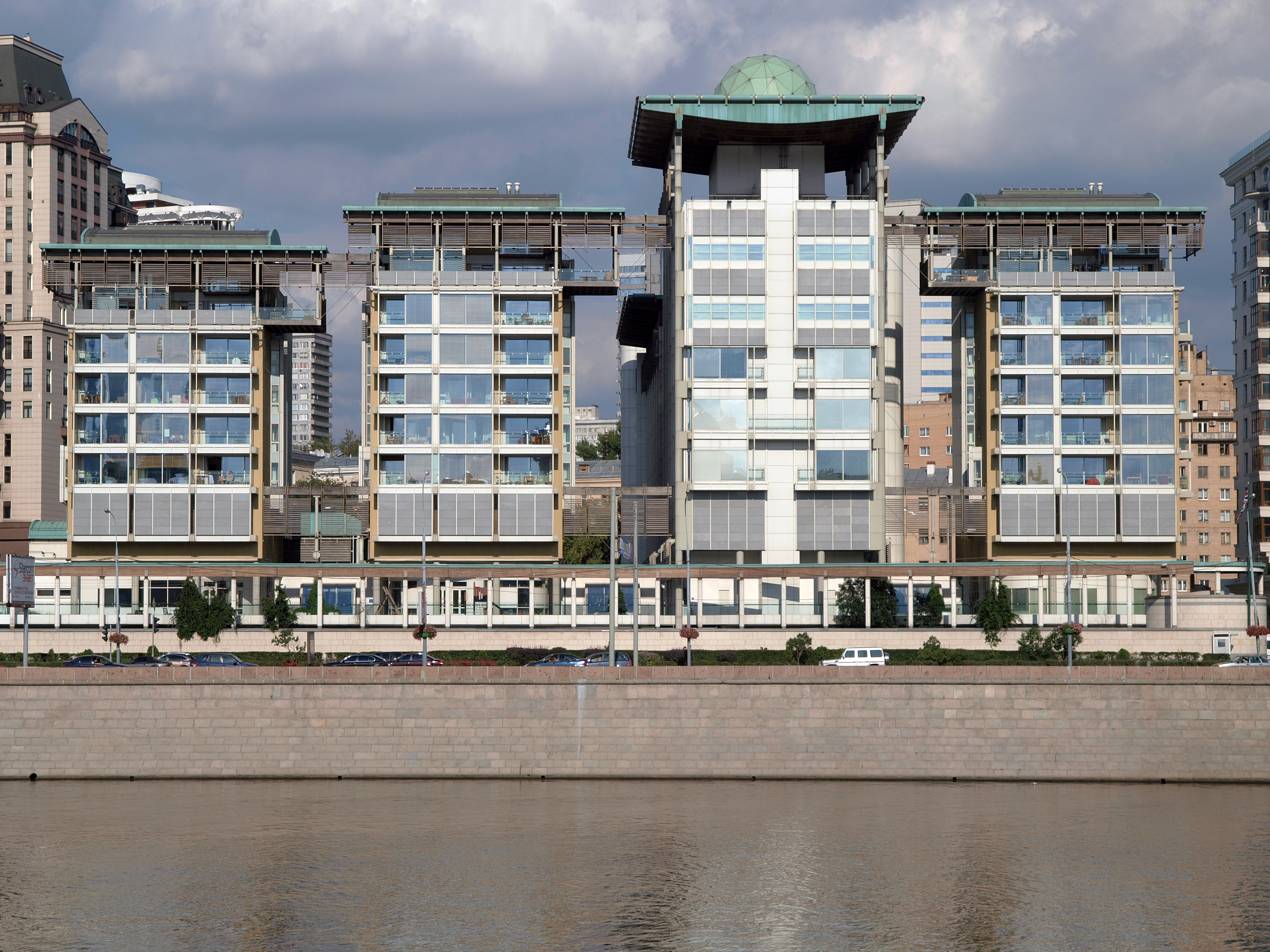 (new) Embassy of the UK in Moscow